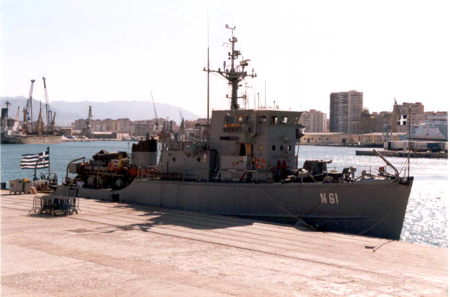 Former Greek minehunter Evnikinow decommissioned